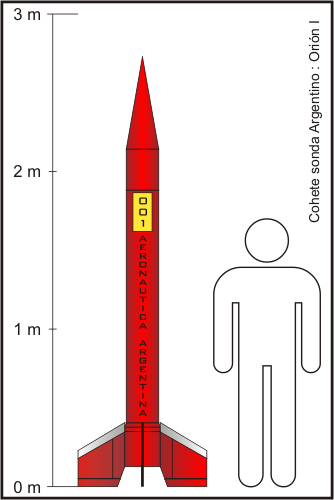 Argentine sounding rocket Orión I